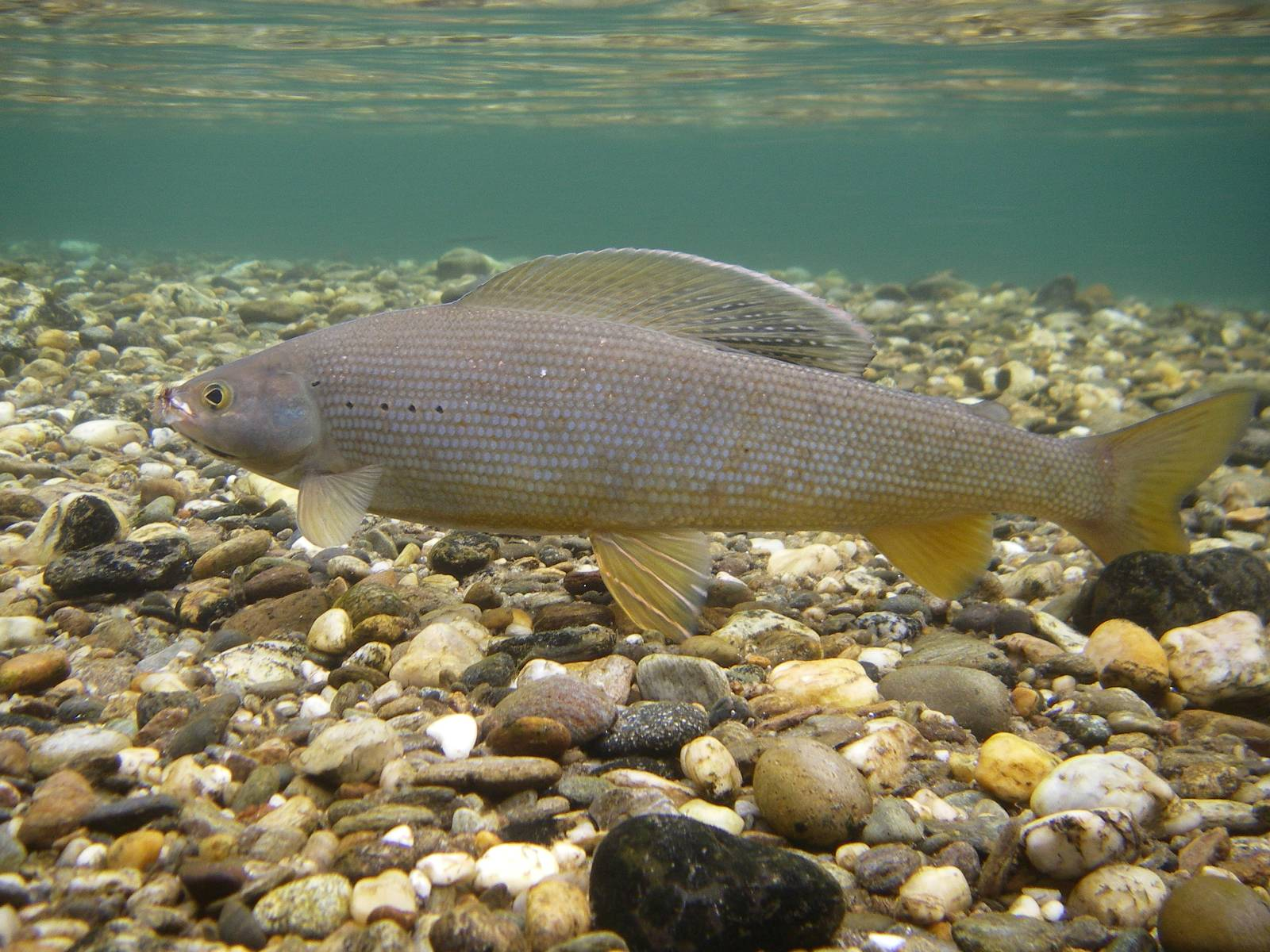 Arctic Grayling, photographed under water, Clearwater Creek Alaska. 4Wt Fly rod 5X tippet